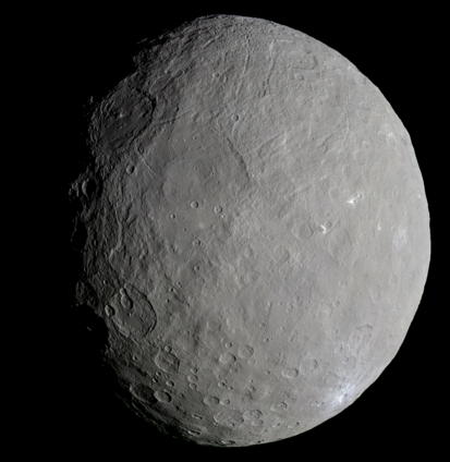 This approximately true color image of Ceres was taken by Dawn on May 7, 2015.